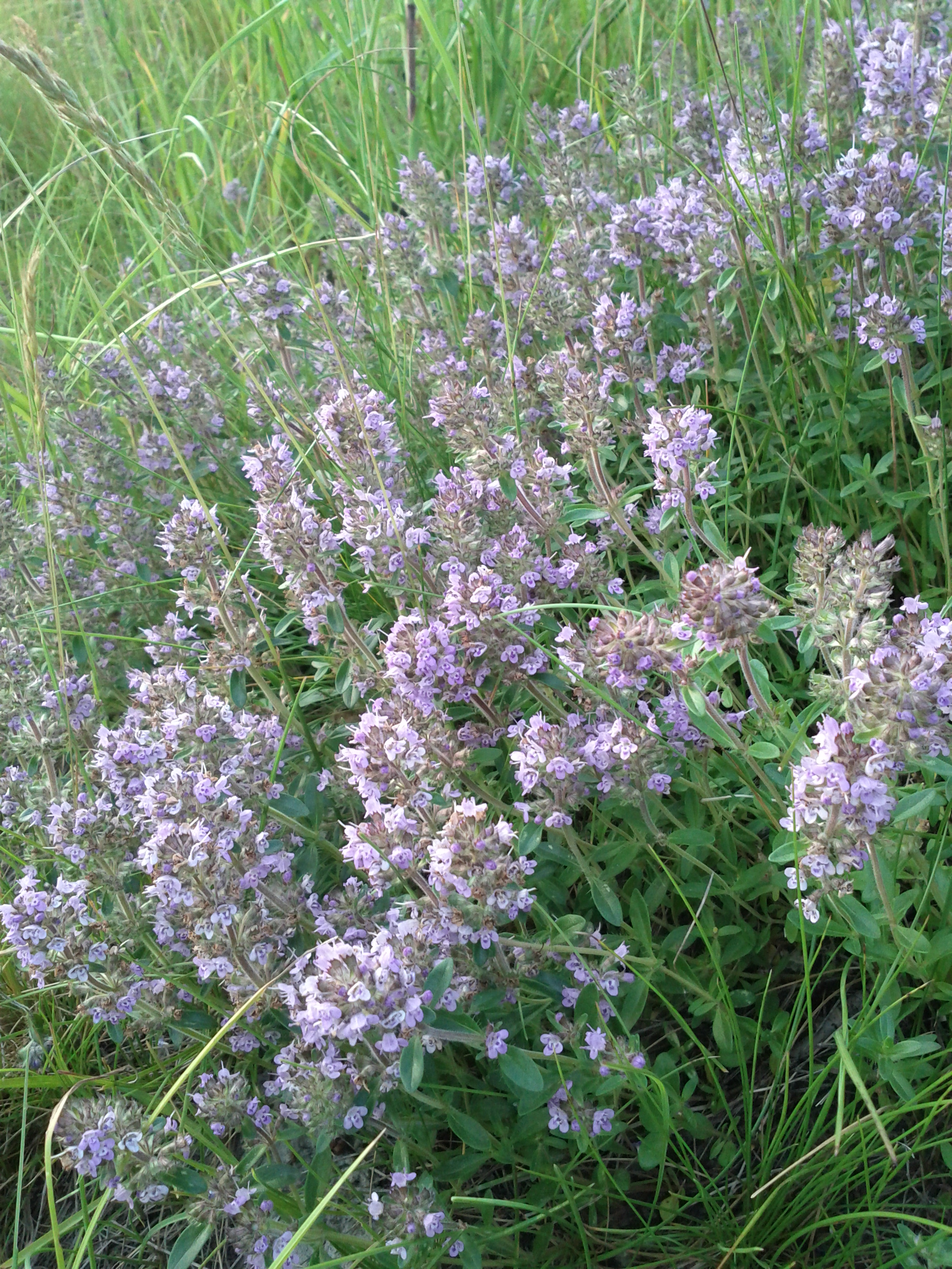 Habitus Taxonym: Thymus pannonicus agg. ss Fischer et al. EfÖLS 2008 ISBN 978-3-85474-187-9 Location: Neue Donau, Vienna-Floridsdorf - ca. 160 m a.s.l. Habitat: dry meadows